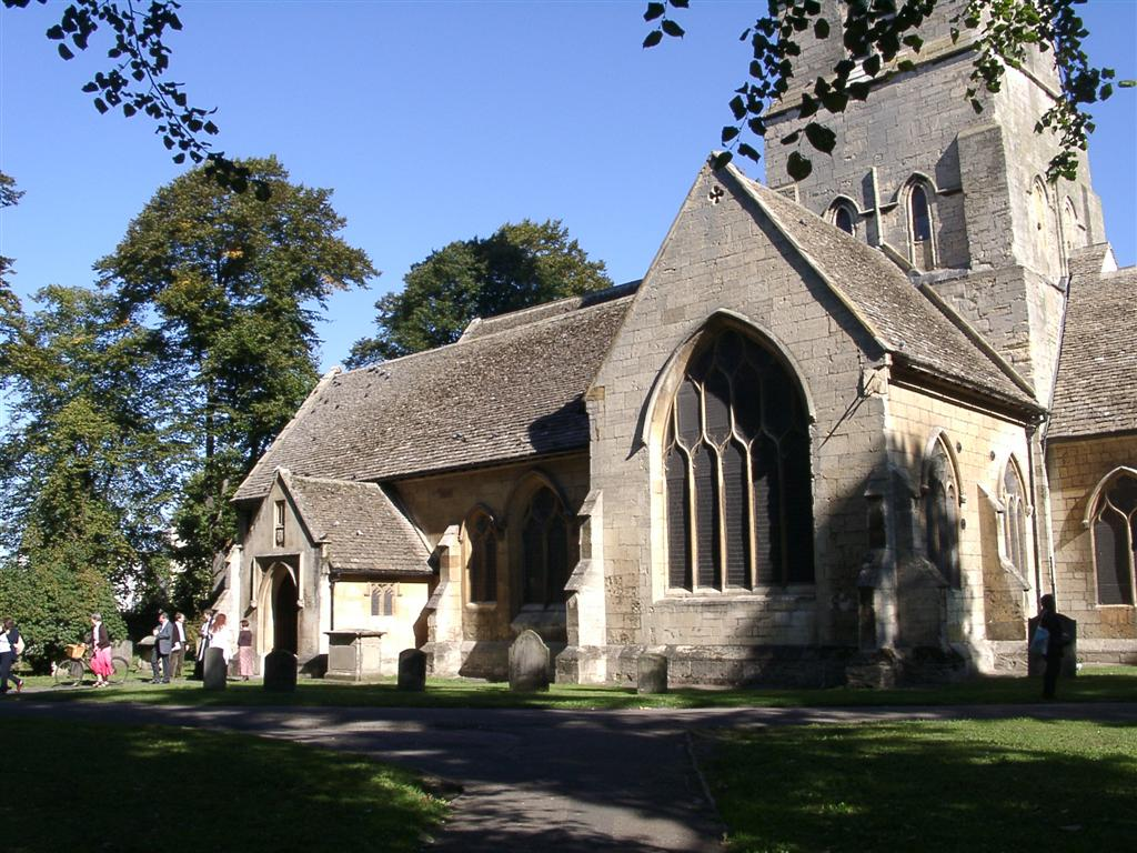 Congregation depart following a service, Cheltenham Minster.